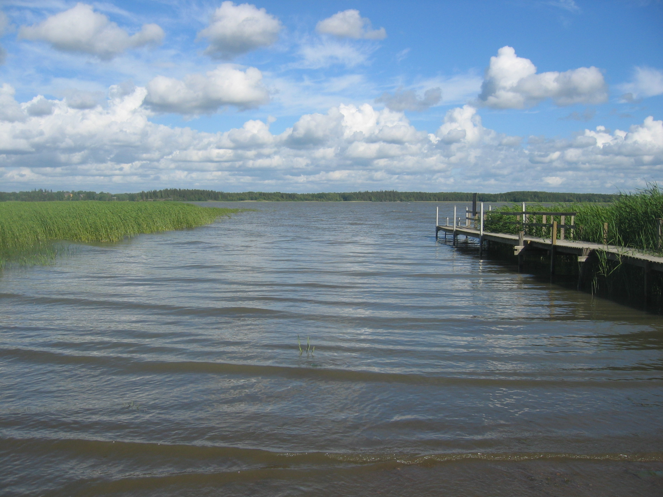 View from Aarlahti beach, in Mietoinen, Finland.